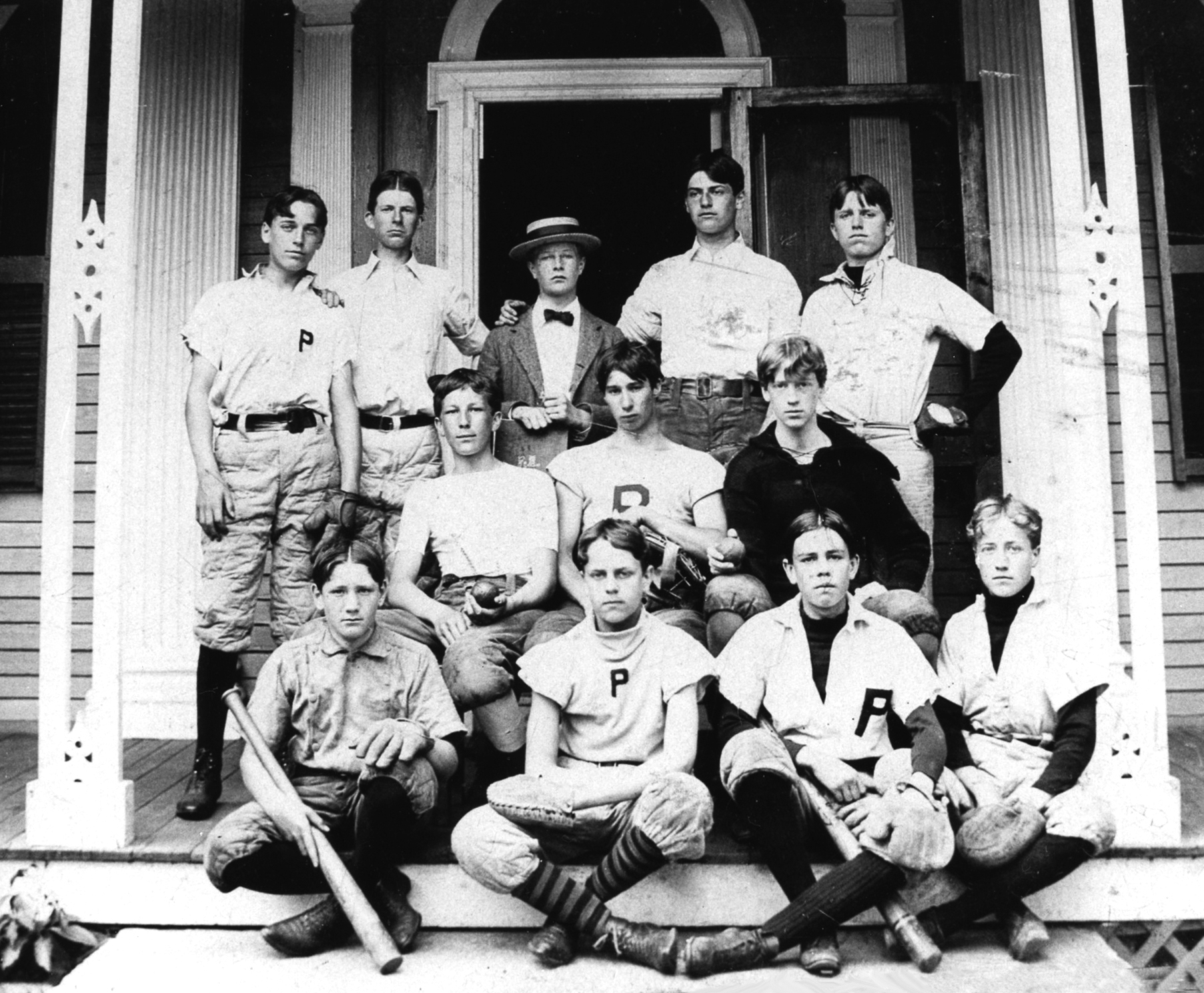 Pomfret School's first baseball team, 1895